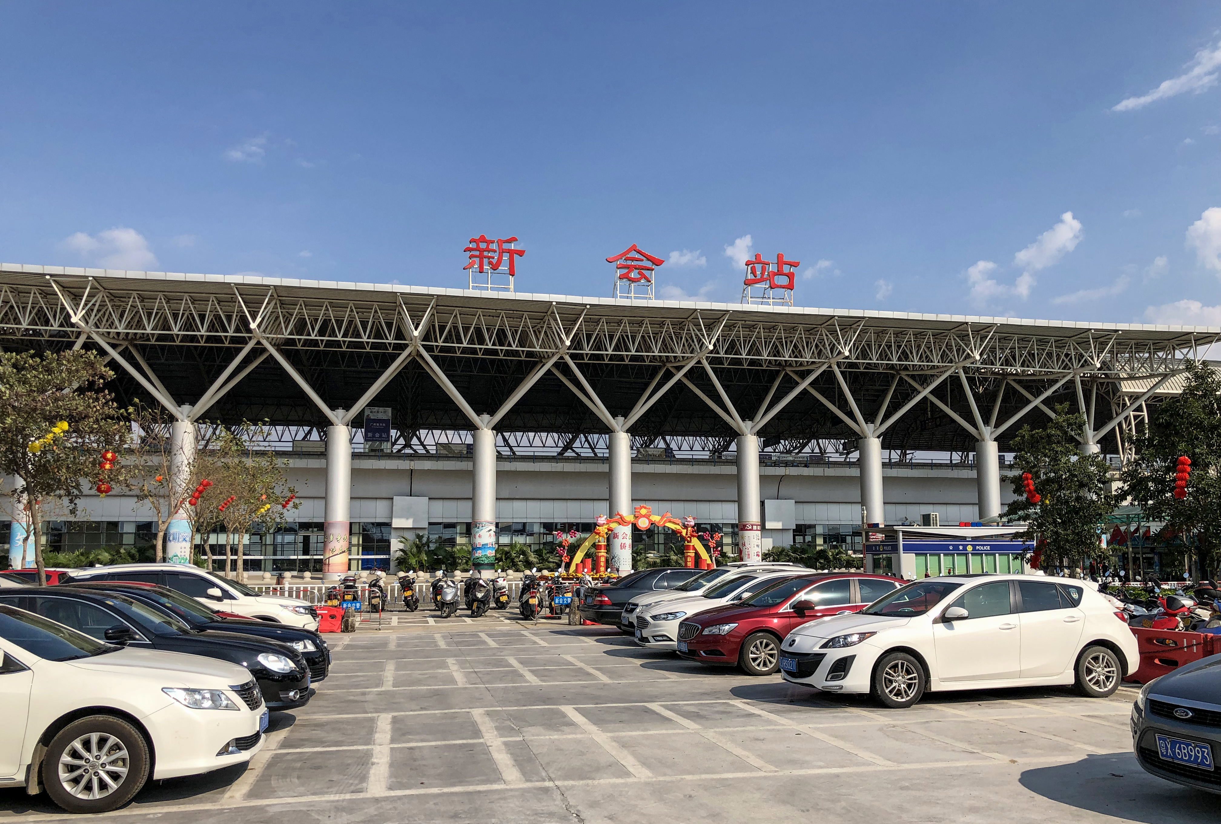 The west side is the main portal. Now got all of the "four counties".